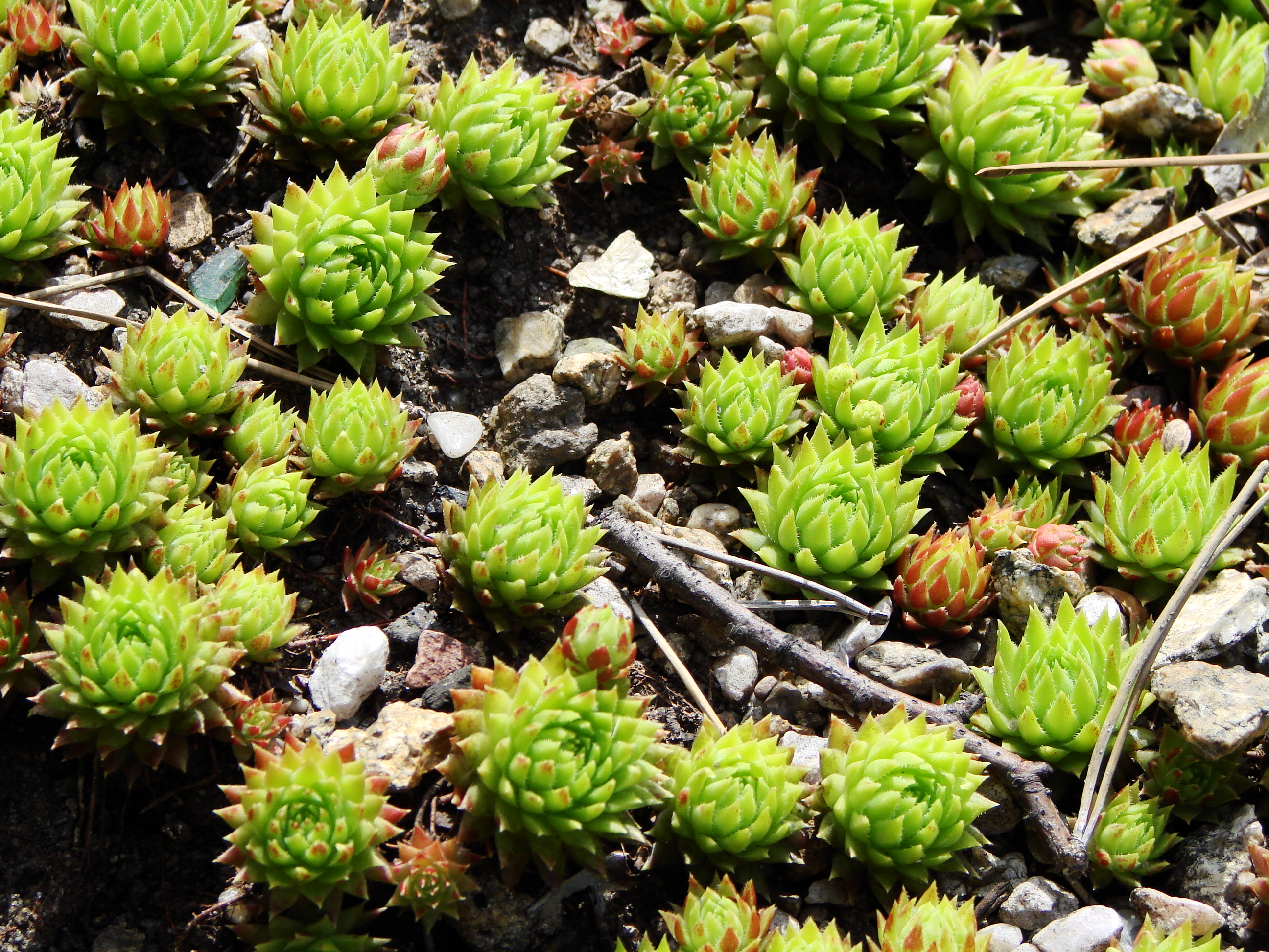 Picture taken in the university botanical garden of Wrocław (Poland): Jovibarba globifera globifera (L.) J.Parn.